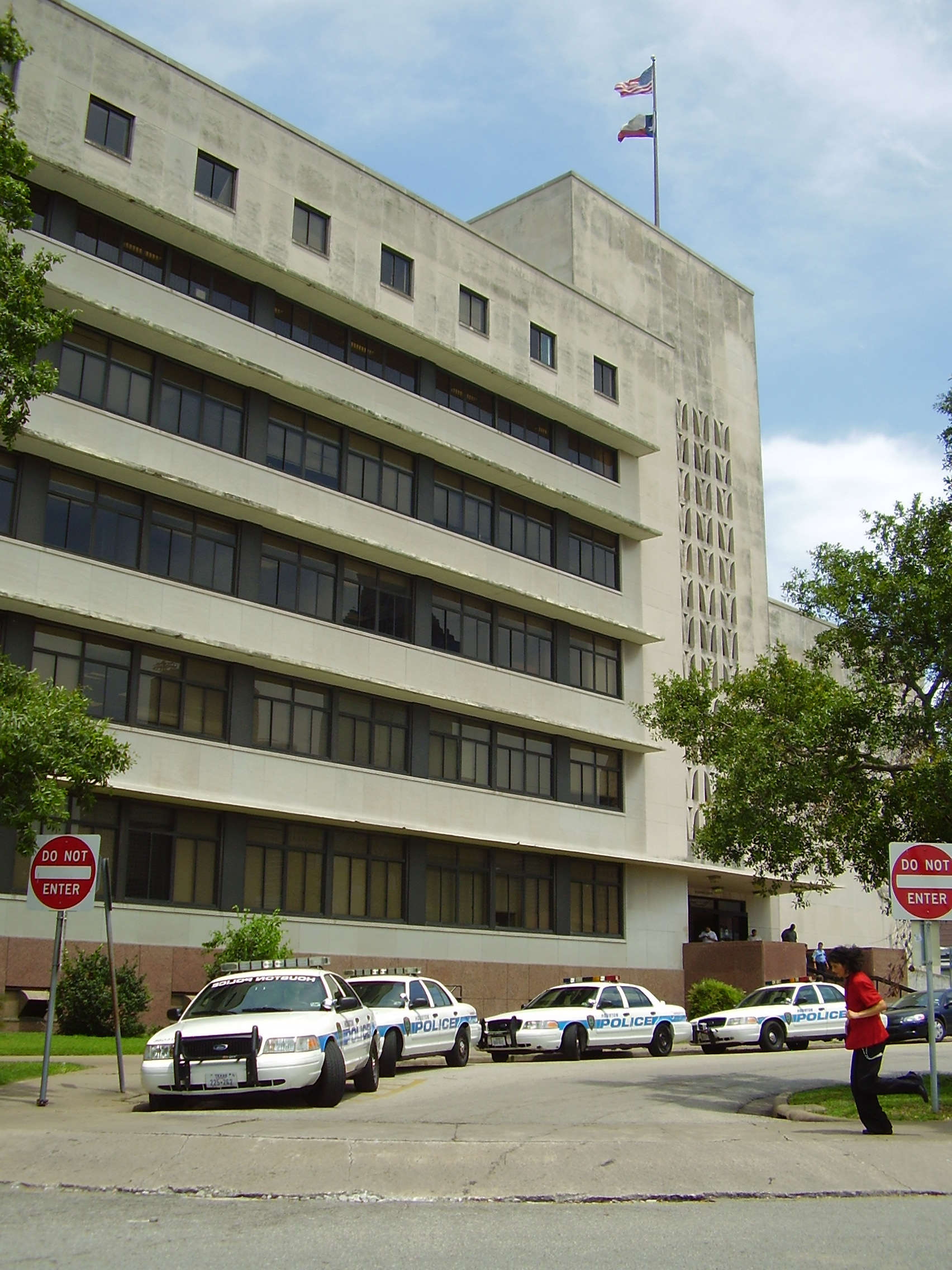 Central Police Substation